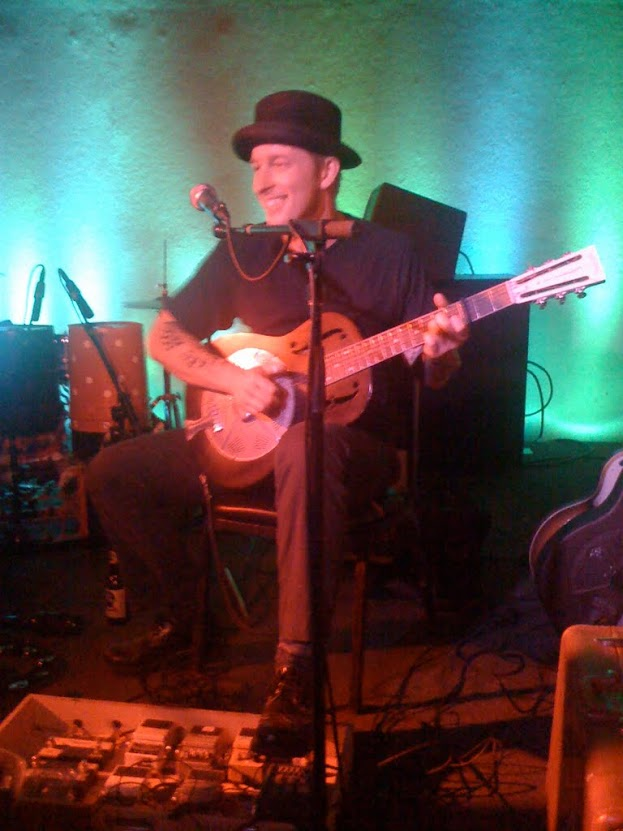 Sassparilla -- Kevin Blackwell at the Doug Fir, mobile upload taken by me with iPhone